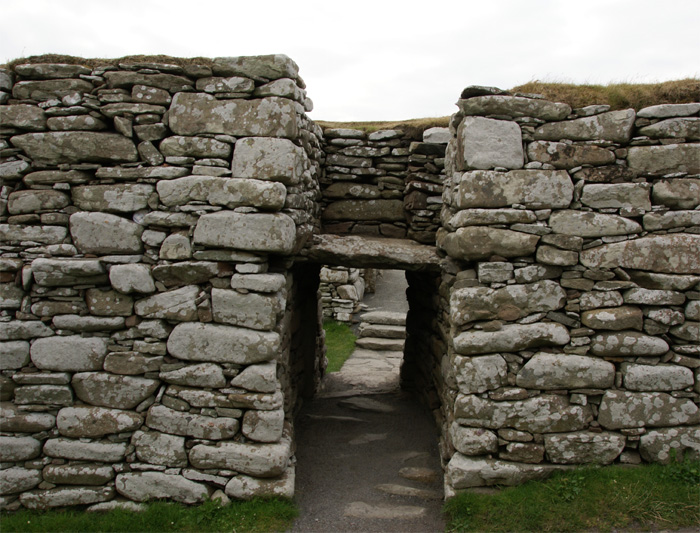 Clickimin Broch, Lerwick, Shetland, Scotland - entrance of blockhouse